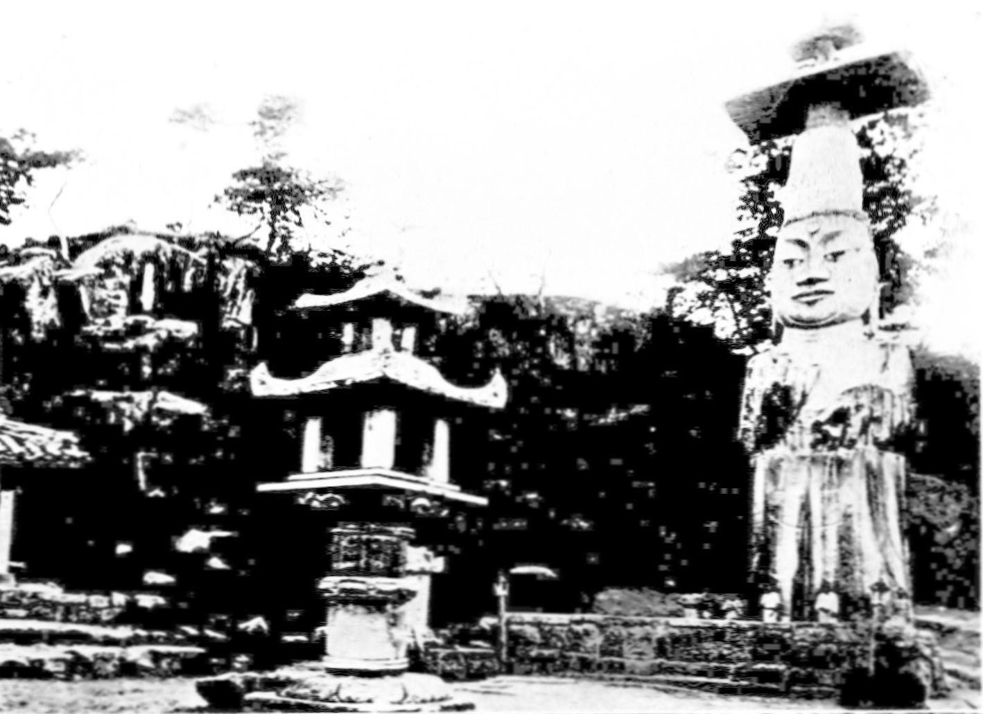 The great stone Buddha at Eunjin